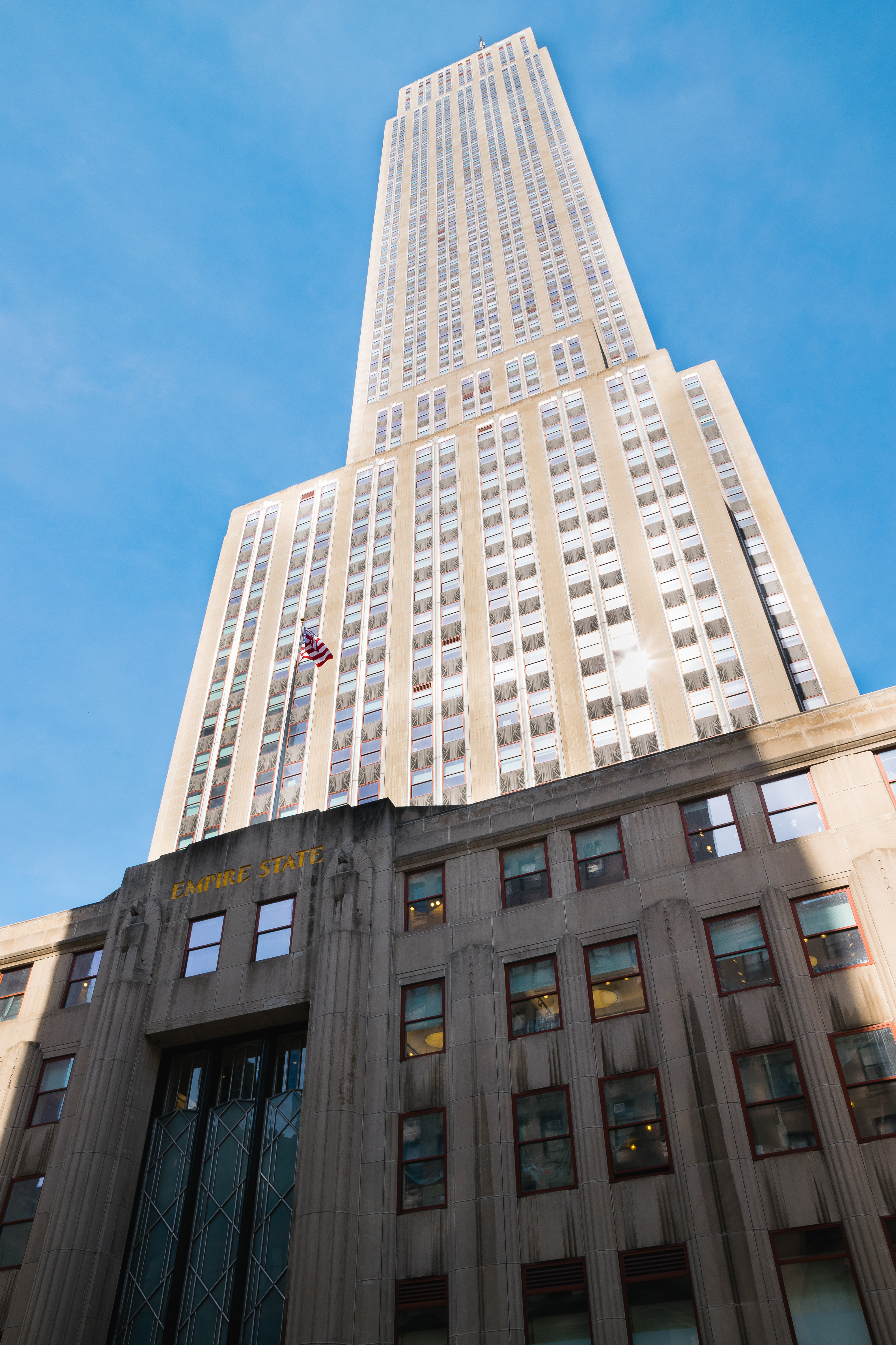 The Empire State Building in New York City at daylight